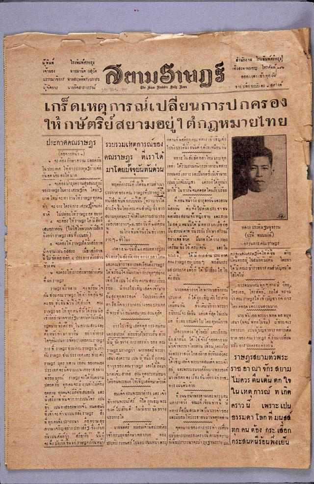 Siam Ratsadorn, Newspaper in June 24, 1932